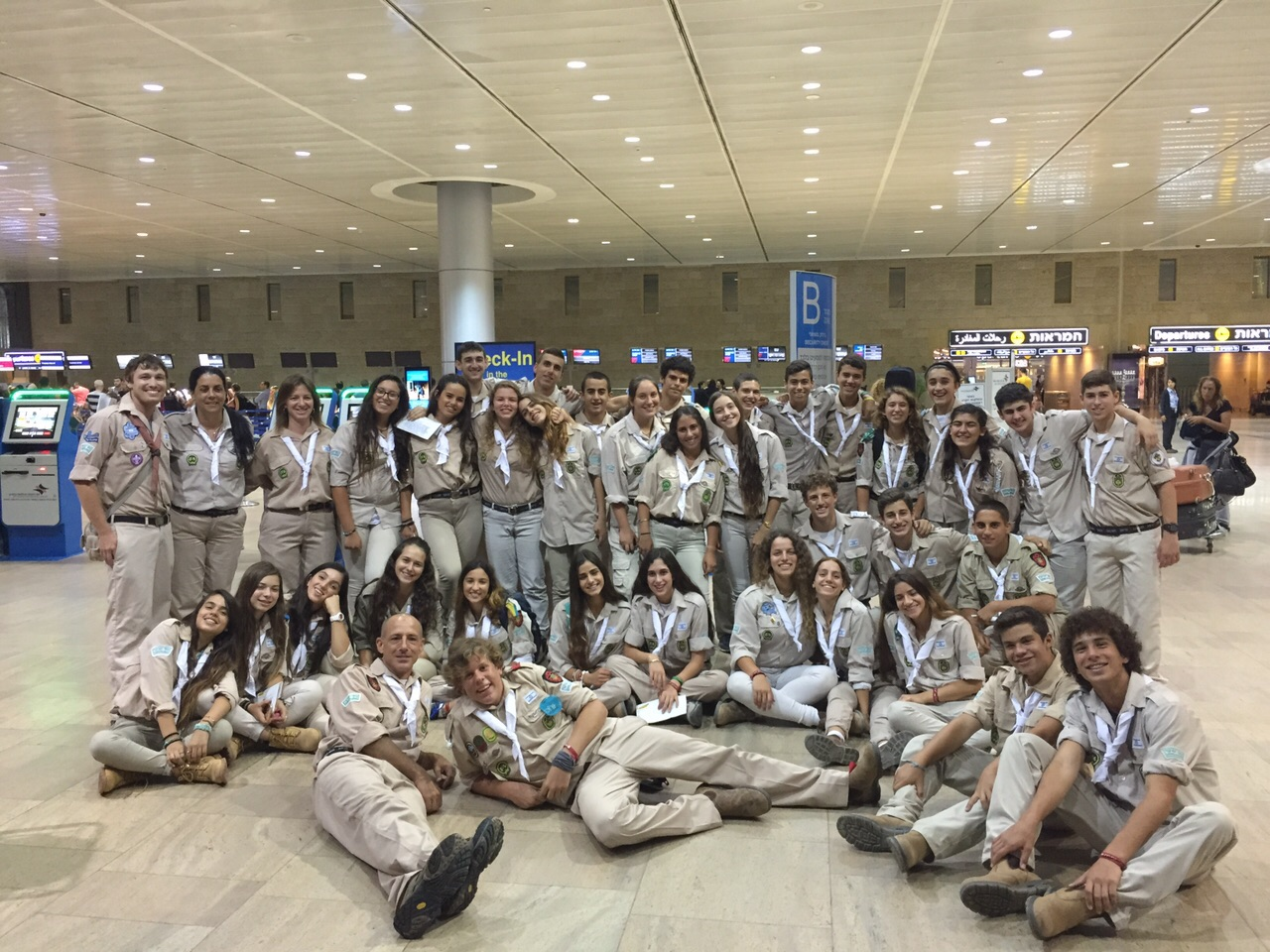 Israel Scouts Delegation to Finland 2015